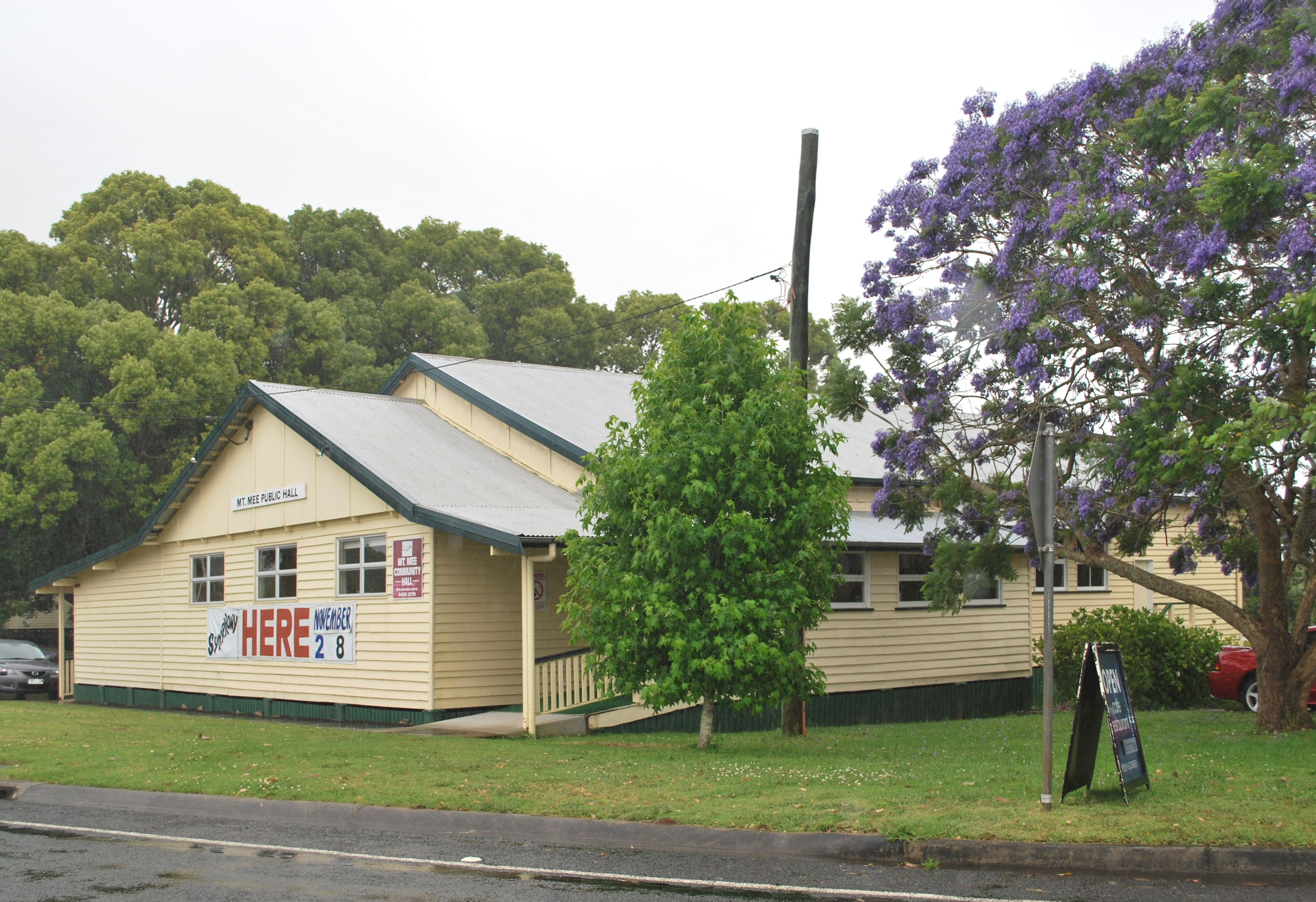 Public hall at Mount Mee, Queensland